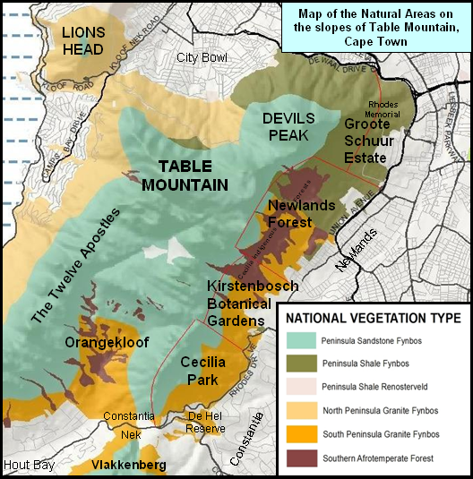 Map of Table Mountain showing the conservation areas and forests of the Eastern Slopes. eg Newlands Forest, Cecilia Park, Kirstenbosch. Map created with info from common knowledge and free public resources.